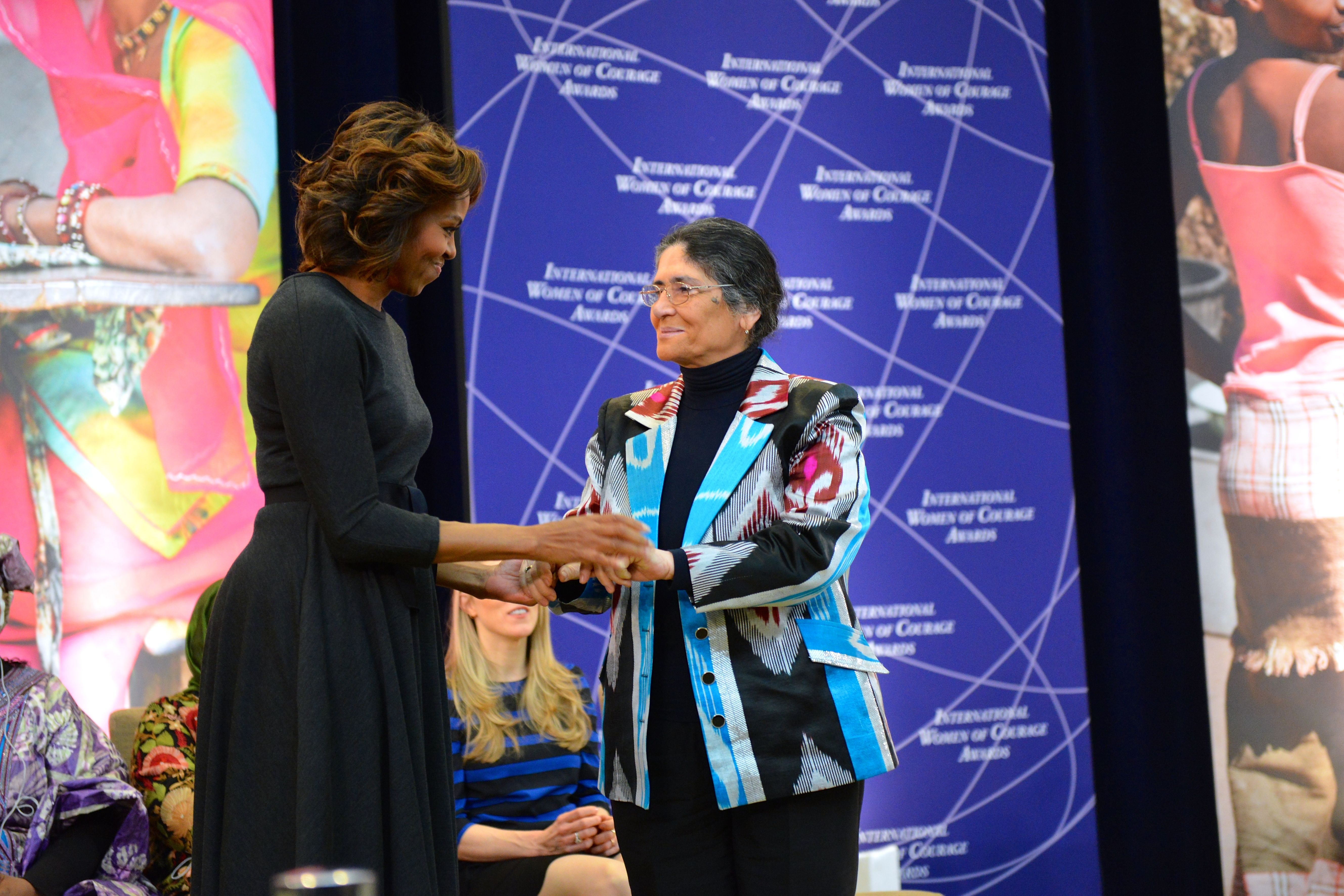 First Lady Michelle Obama embraces 2014 International Women of Courage Awardee Oinikhol Bobonazarova, Director of the NGO Perspektiva Plus in Tajikistan, at the 2014 Secretary of State’s International Women of Courage Award Ceremony at the U.S. Department of State in Washington, D.C., on March 4, 2014. [State Department photo/ Public Domain]